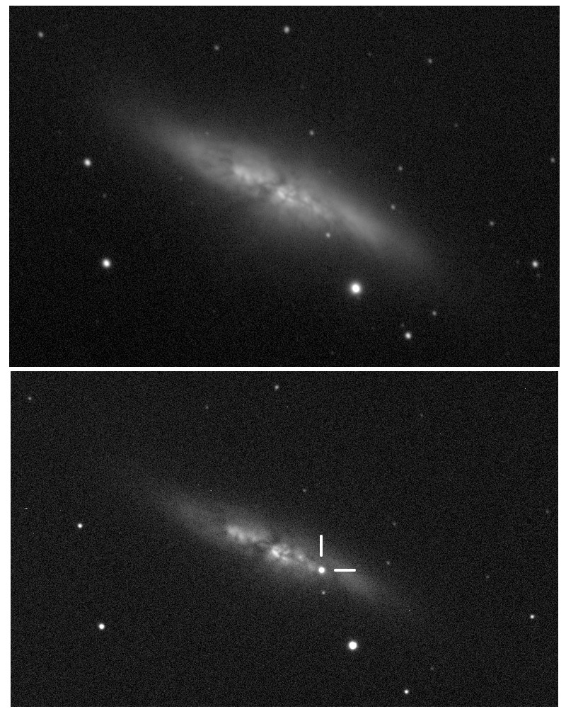 Supernova in M 82 on 21 January 2014. (The same view, from 10 December 2013 for comparison). Observations from the University of London Observatory